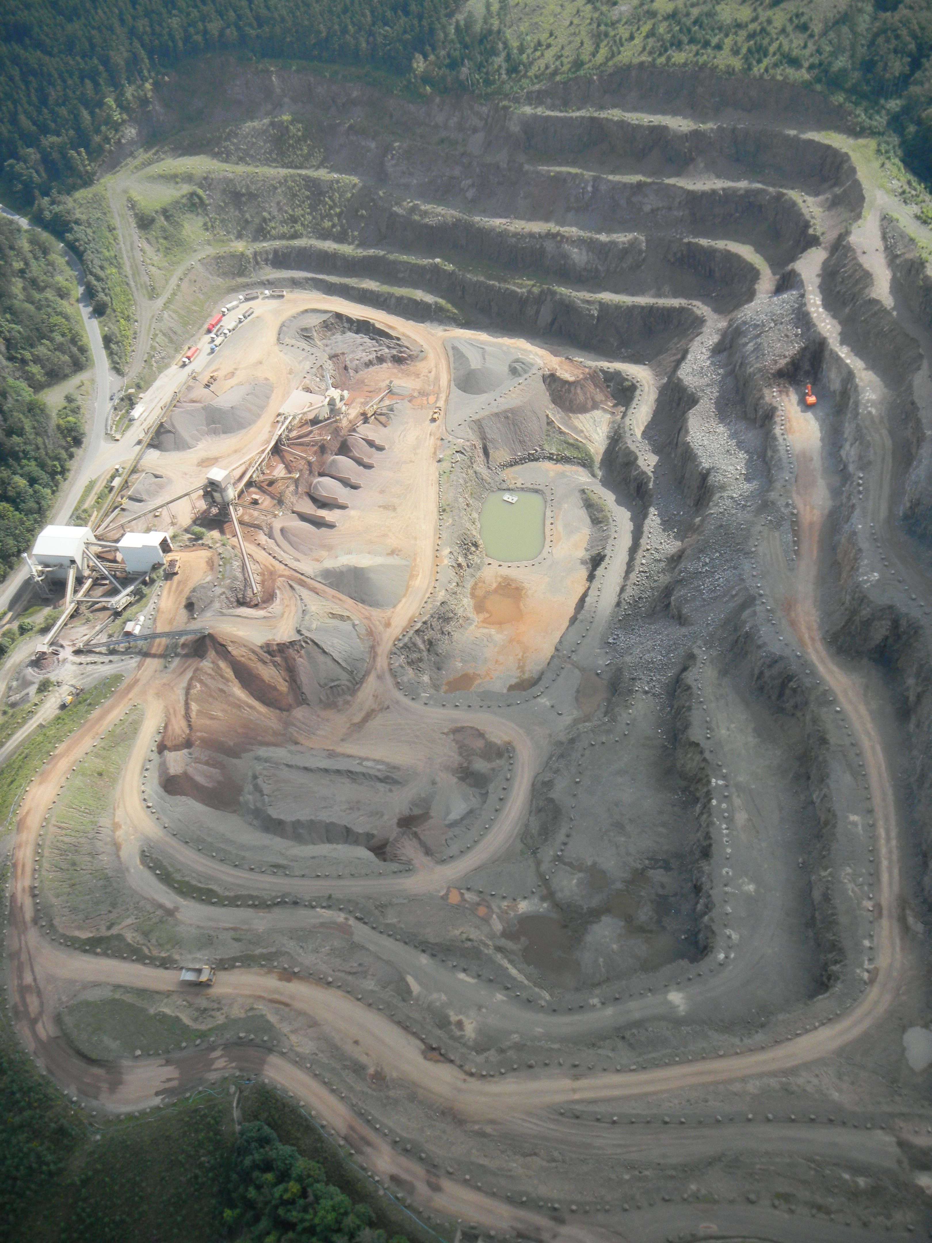 Quarry in Rybnica Leśna, Lower Silesian Voivodship, Poland